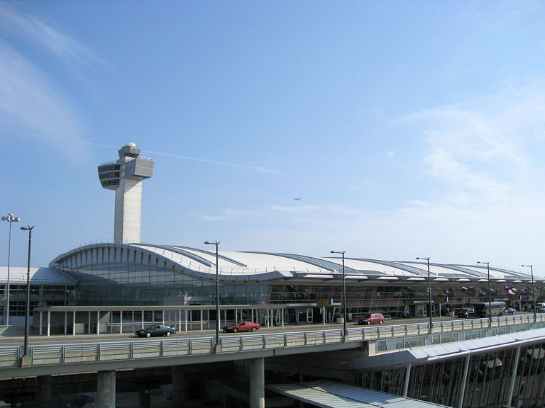 JFK Terminal 4, New York – one of JFK's better terminals. If you're flying through the wrong terminal at JFK you will have one of the worst major city airport experiences in the world.